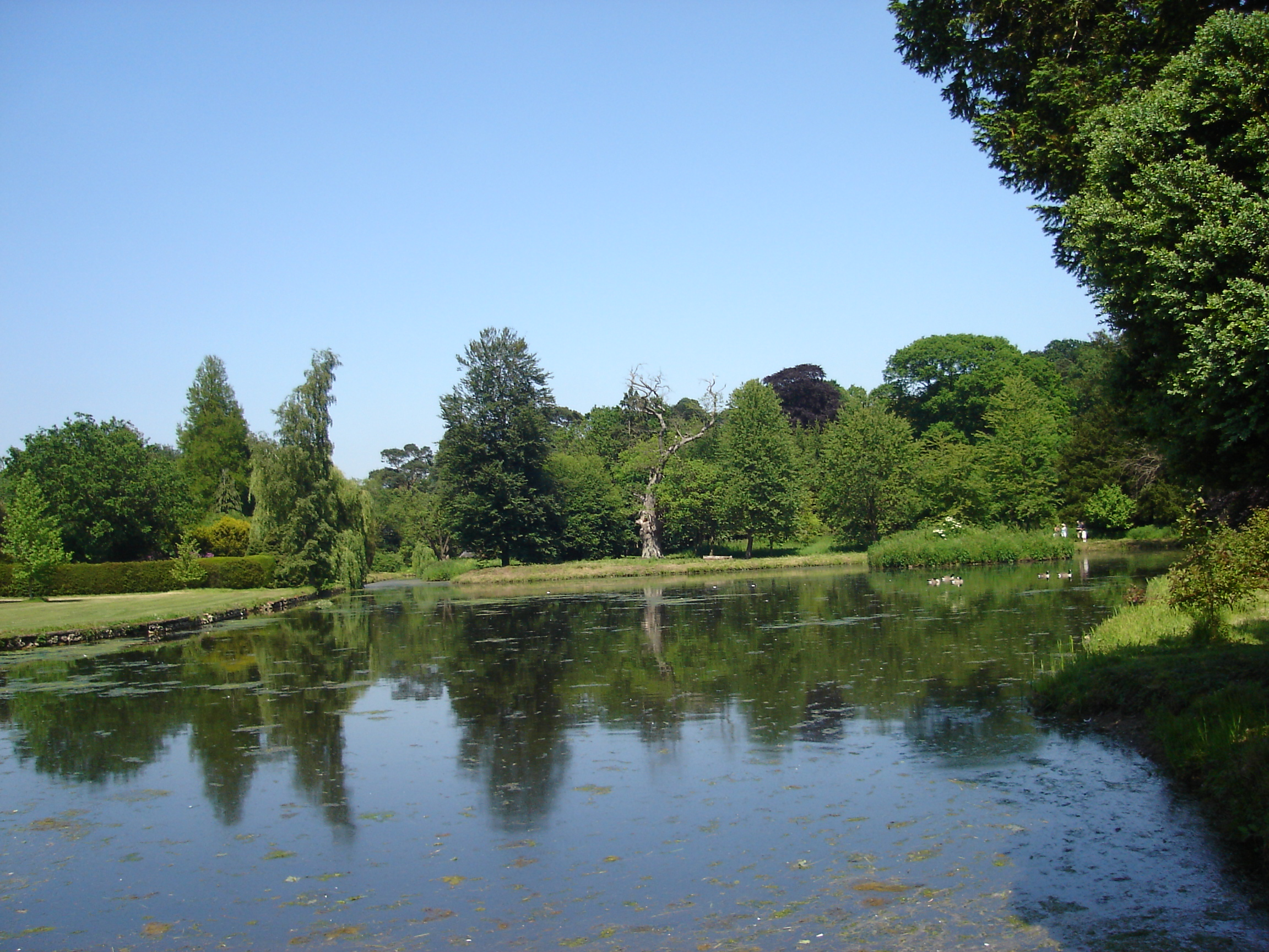 Picture of lake at Bolwick Hall, Marsham, Norfolk